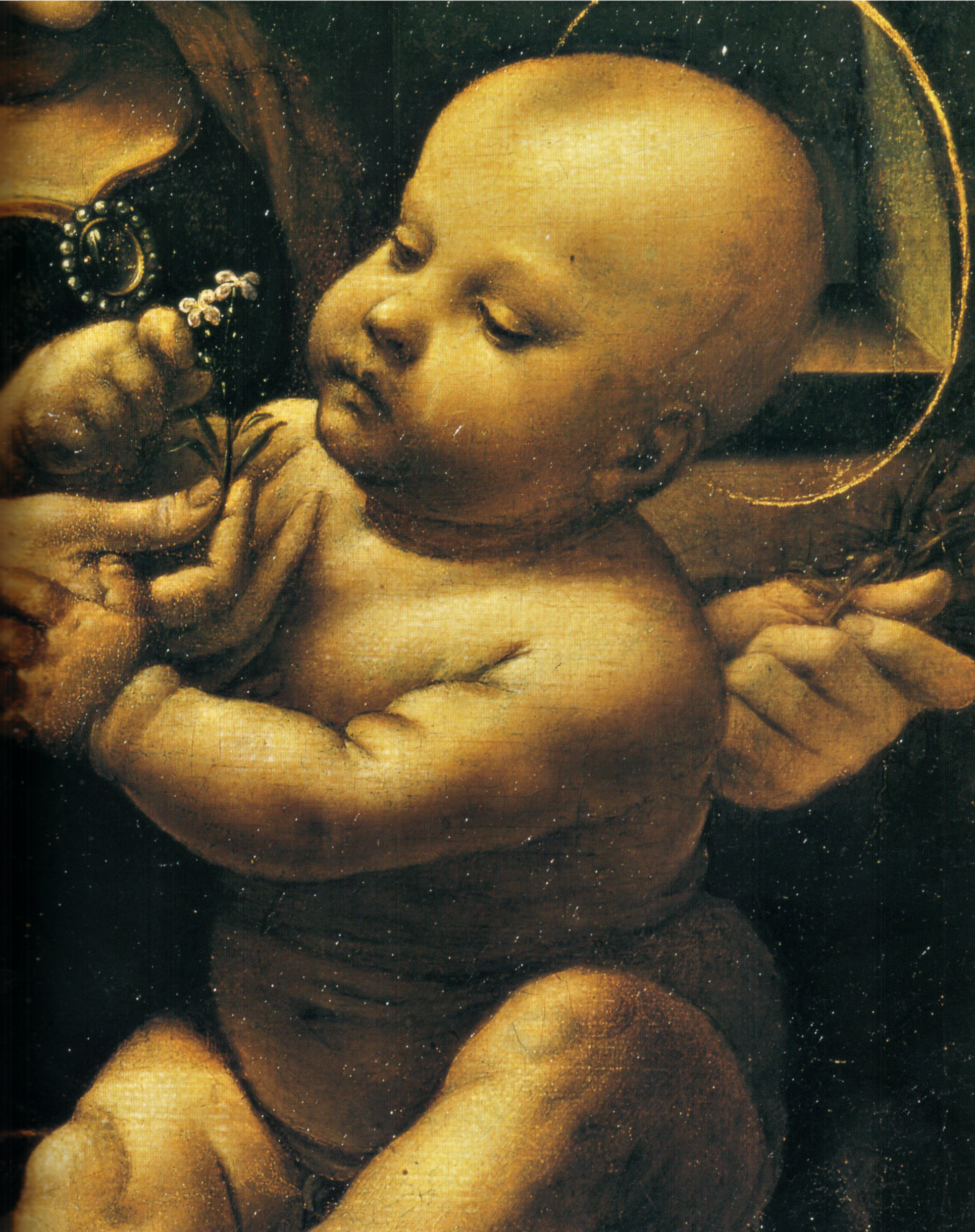 LEONARDO da Vinci Madonna with a Flower (Madonna Benois) Oil on canvas transferred from wood, 50 x 32 cm The Hermitage, St. Petersburg